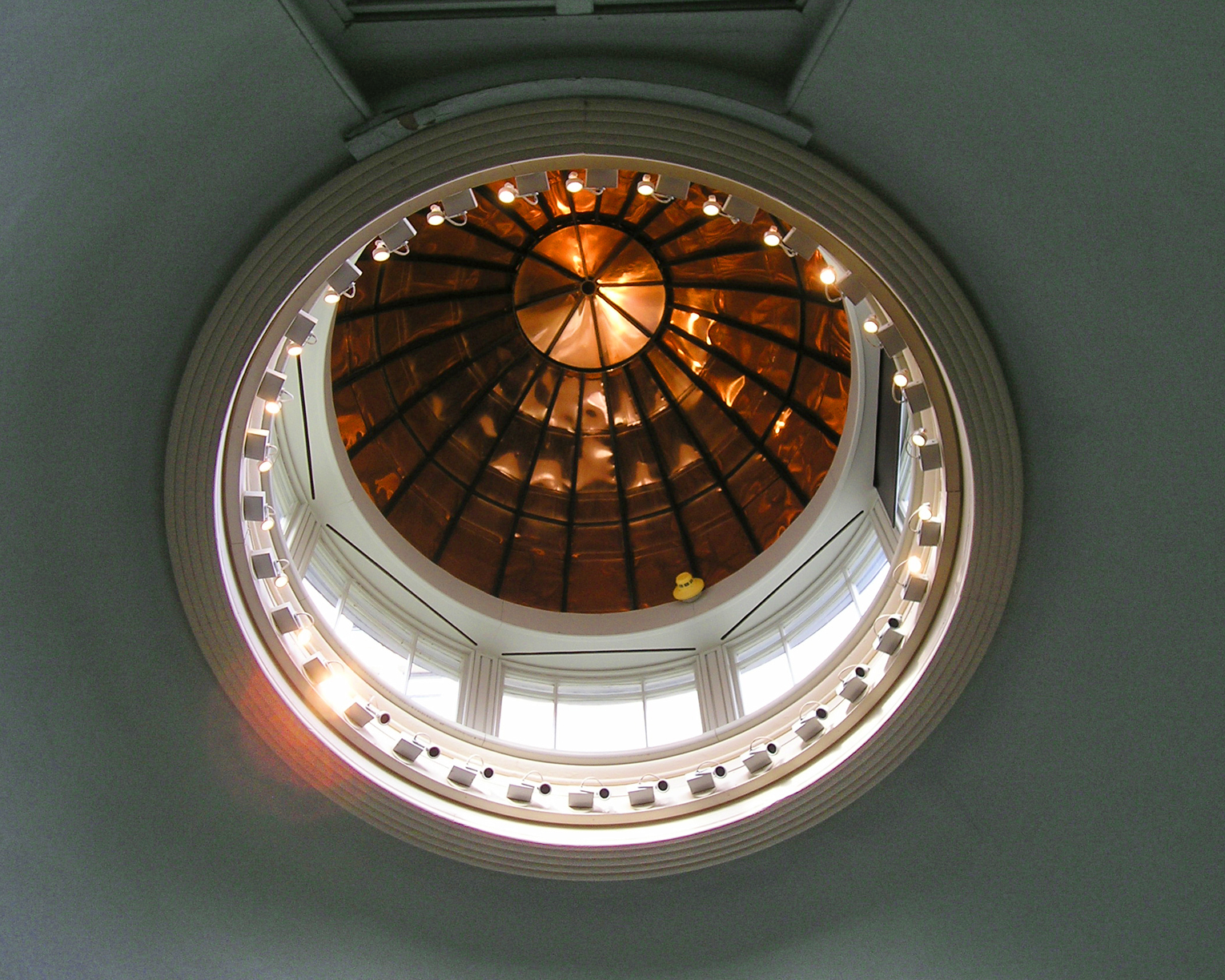 The inside of the Ether Dome atop the Bulfinch Building at Massachusetts General Hospital in downtown Boston as photographed on 29 January 2007.